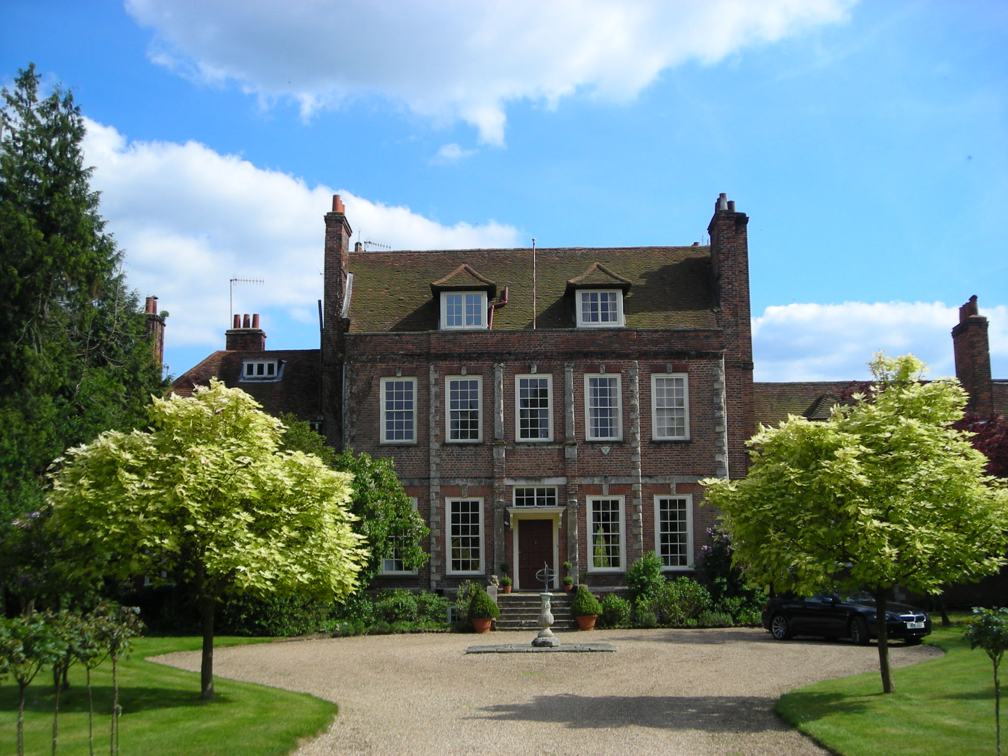 Byfleet Manor House